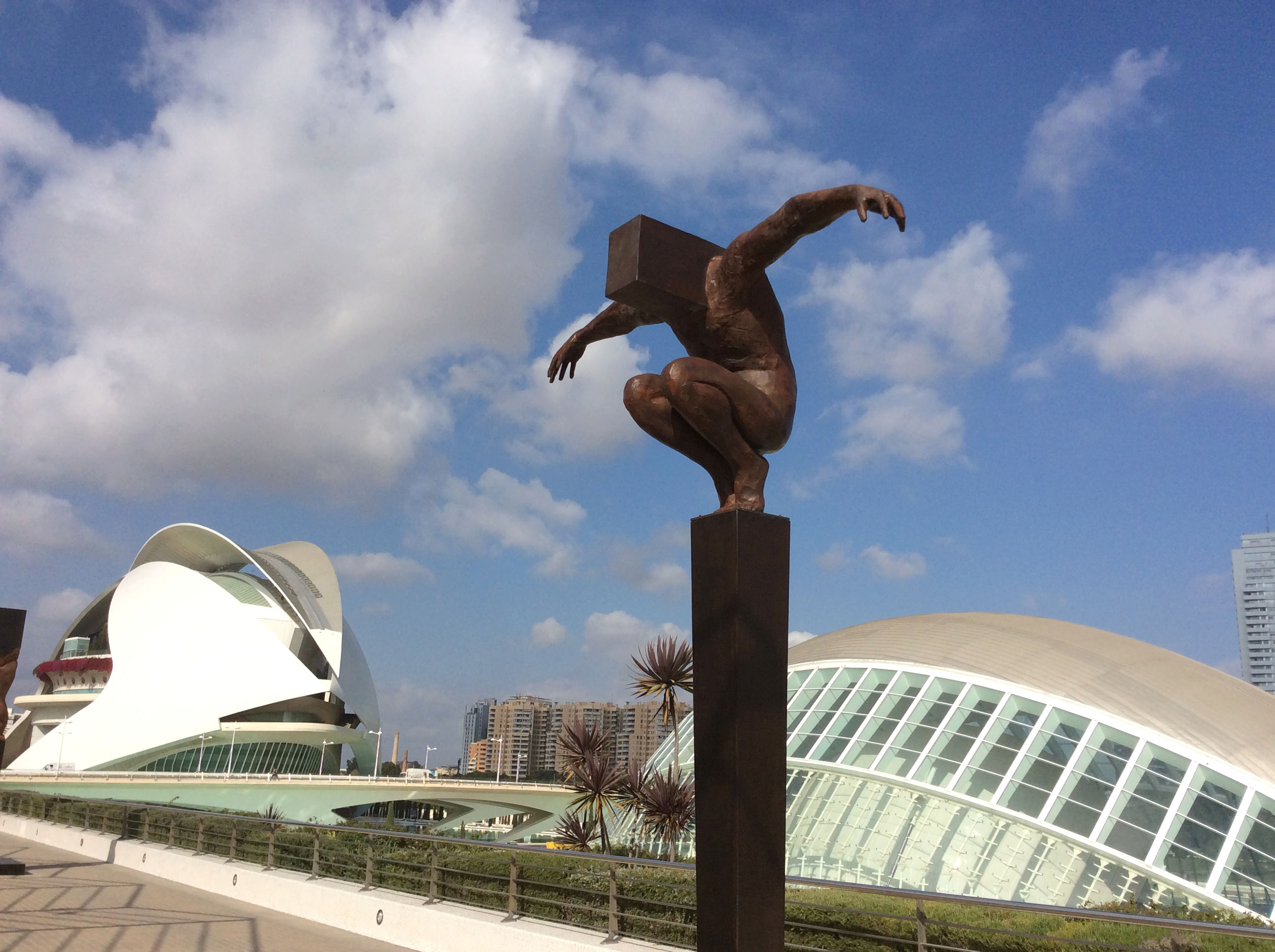 ABYSS - Rogério Timóteo Sculptor